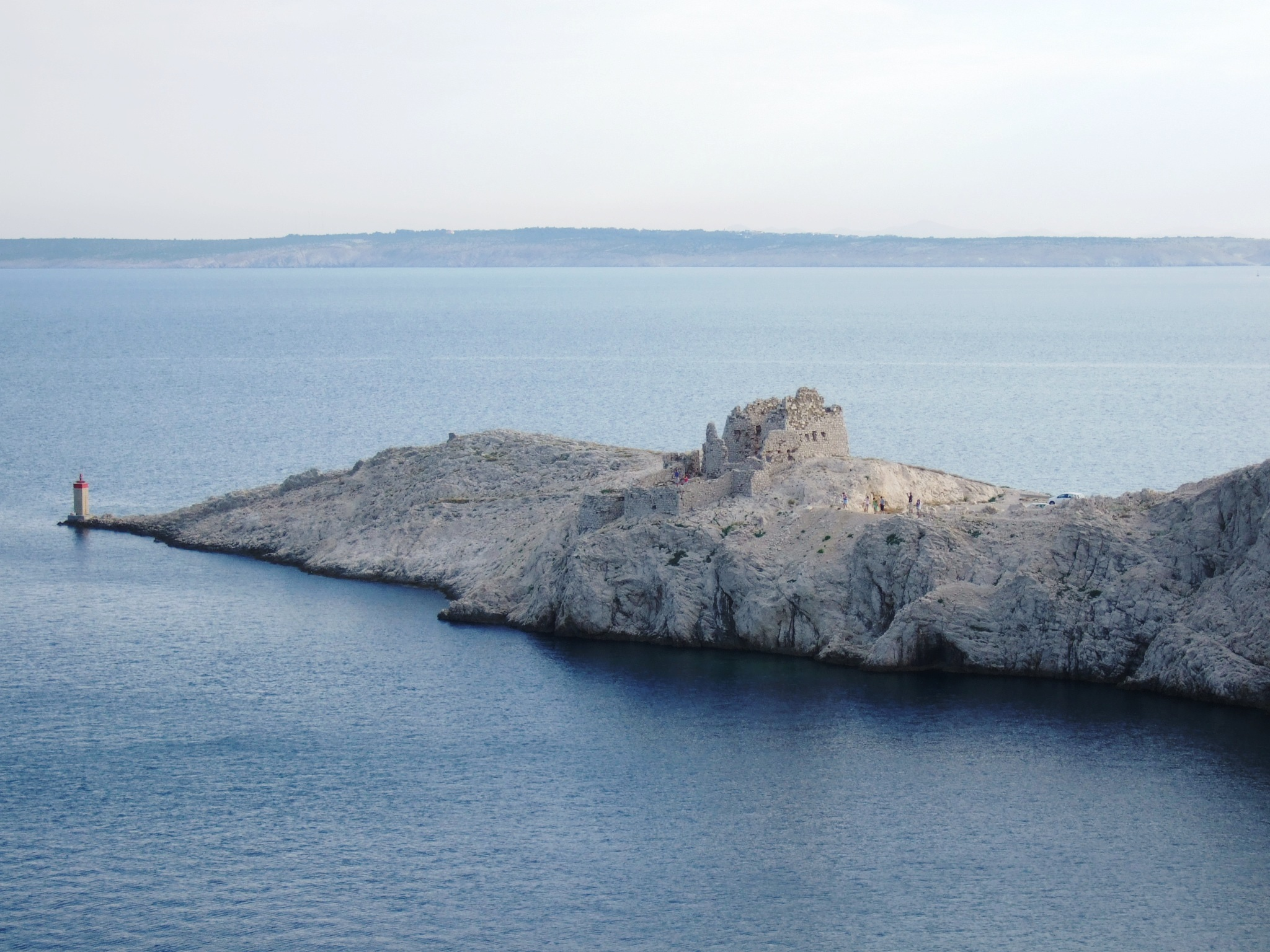 Ruins nearby the Pag's bridge (Island of Pag)